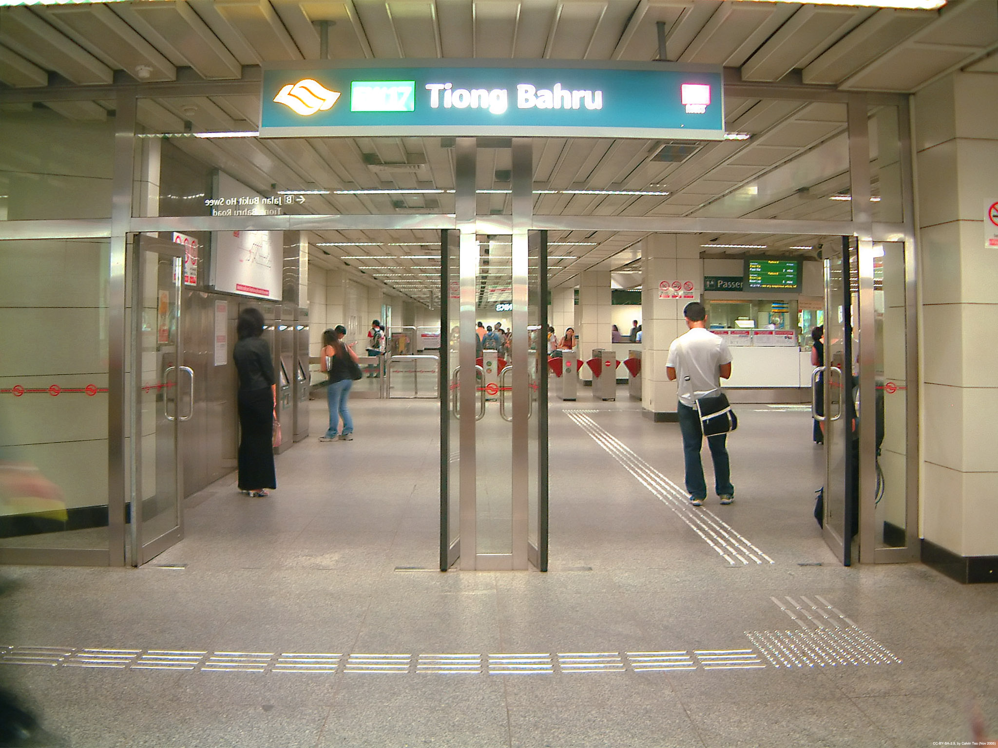 Underground Entrance to Tiong Bahru MRT Station, showing the faregates, General Ticketing Machines, and the Passenger Service Centre in the background.